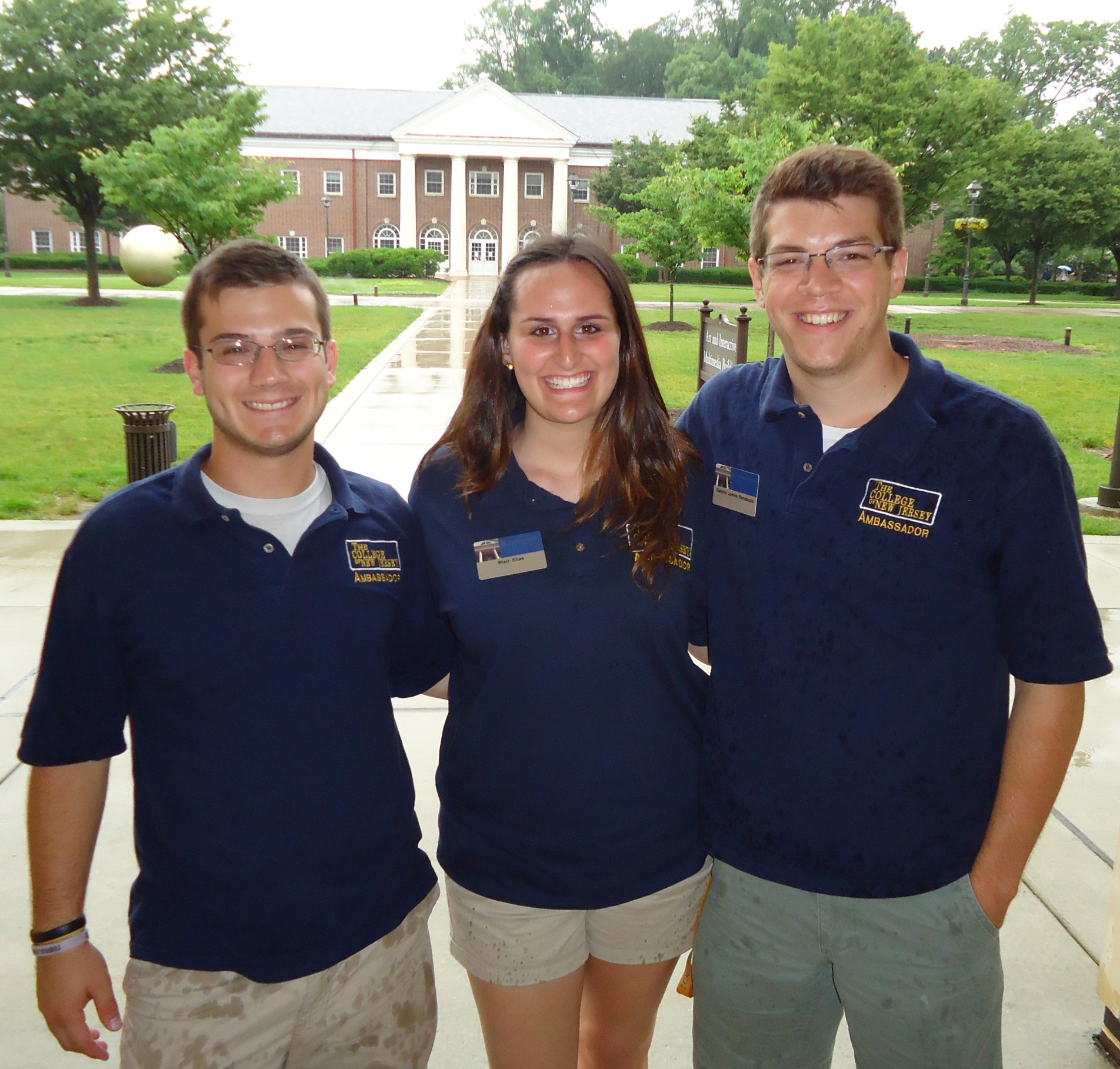 At The College of New Jersey, or TCNJ, in Ewing, NJ, visitors are greeted by campus ambassadors -- student volunteers who help parents and newly admitted transfer students find their way around campus.